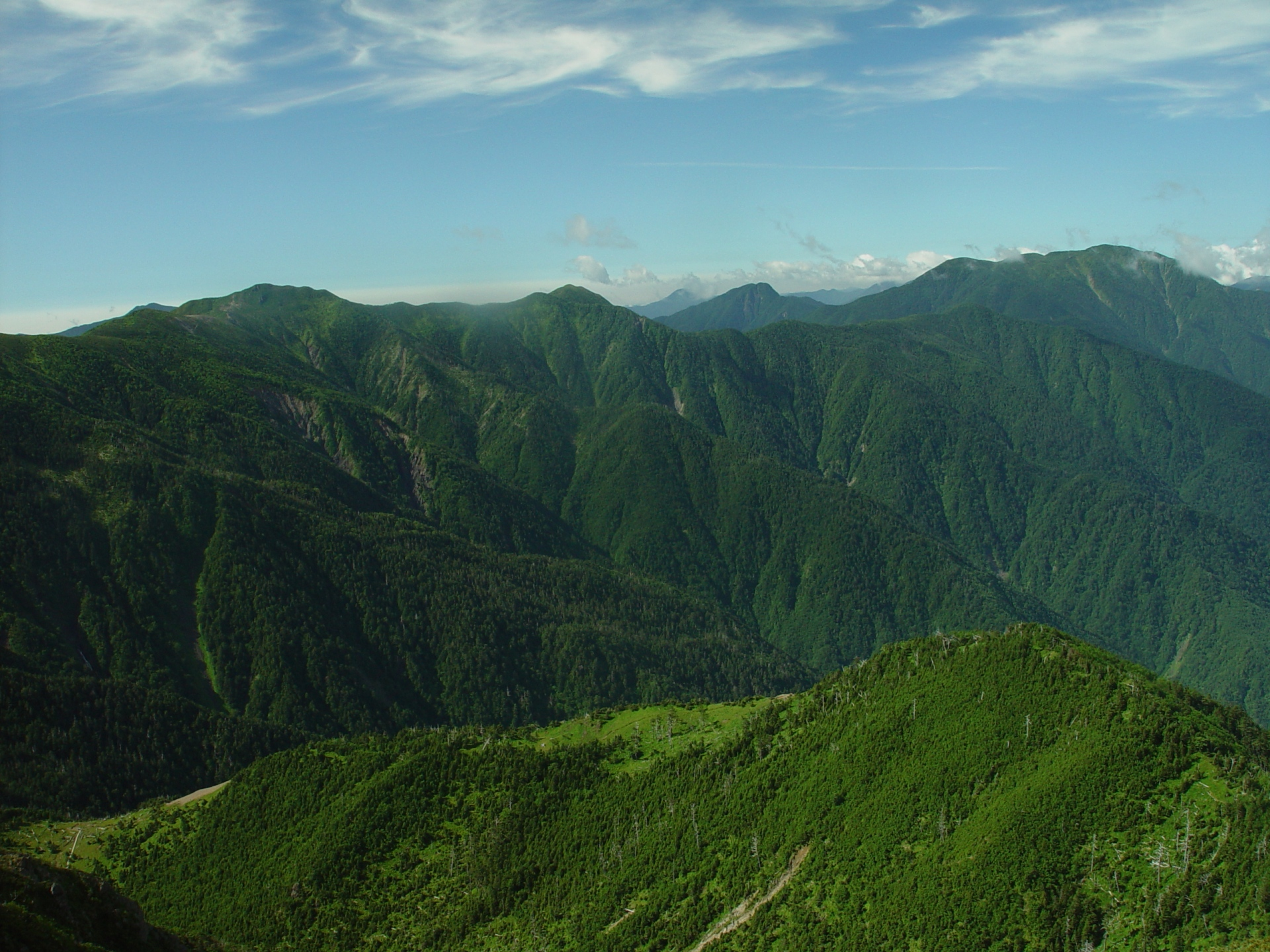 Mount Chausu and Mount Tekari seen from Mount Hijiri